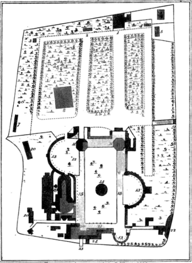 Plan of Vauxhall Gardens, 1826, by Thomas Allen. Key: 1. Fire work Tower 2. Evening Star 3. Hermitage 4. Smugglers Cave 5. House in which Mr. Barrett died 6. Statue of Milton 7. Transparency 8. Theatre 9. Chinese entrance 10. Artificers' workshop 11. Octagon temples 12. Fountain 13. Circles of boxes 14. Orchestra 15. Colonnade 16. Rotunda 17. Picture room 18. Supper room 19. Ice House 20. Bar 21. Princes Pavillion 22. Entrance 23. Water gate 24. House